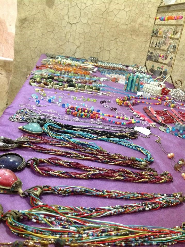 7 ארמון החוריה